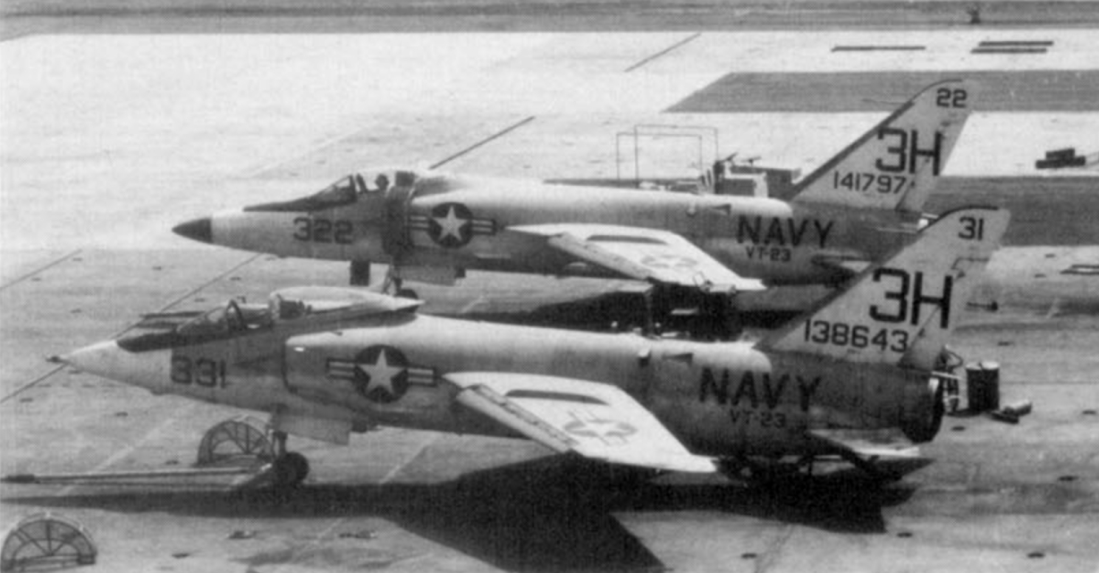 Two U.S. Navy Grumman F11F-1 Tiger fighters of Training Squadron VT-23 Professionals at Naval Air Station Kingsville, Texas (USA). The first aircraft (BuNo 138643) is a "short nose" version from the first production batch (42 aircraft), while the one in the back (BuNo 141797) is from the second "long nose" production batch (157 aircraft). The latter had provisions for a radar, which was actually never carried.